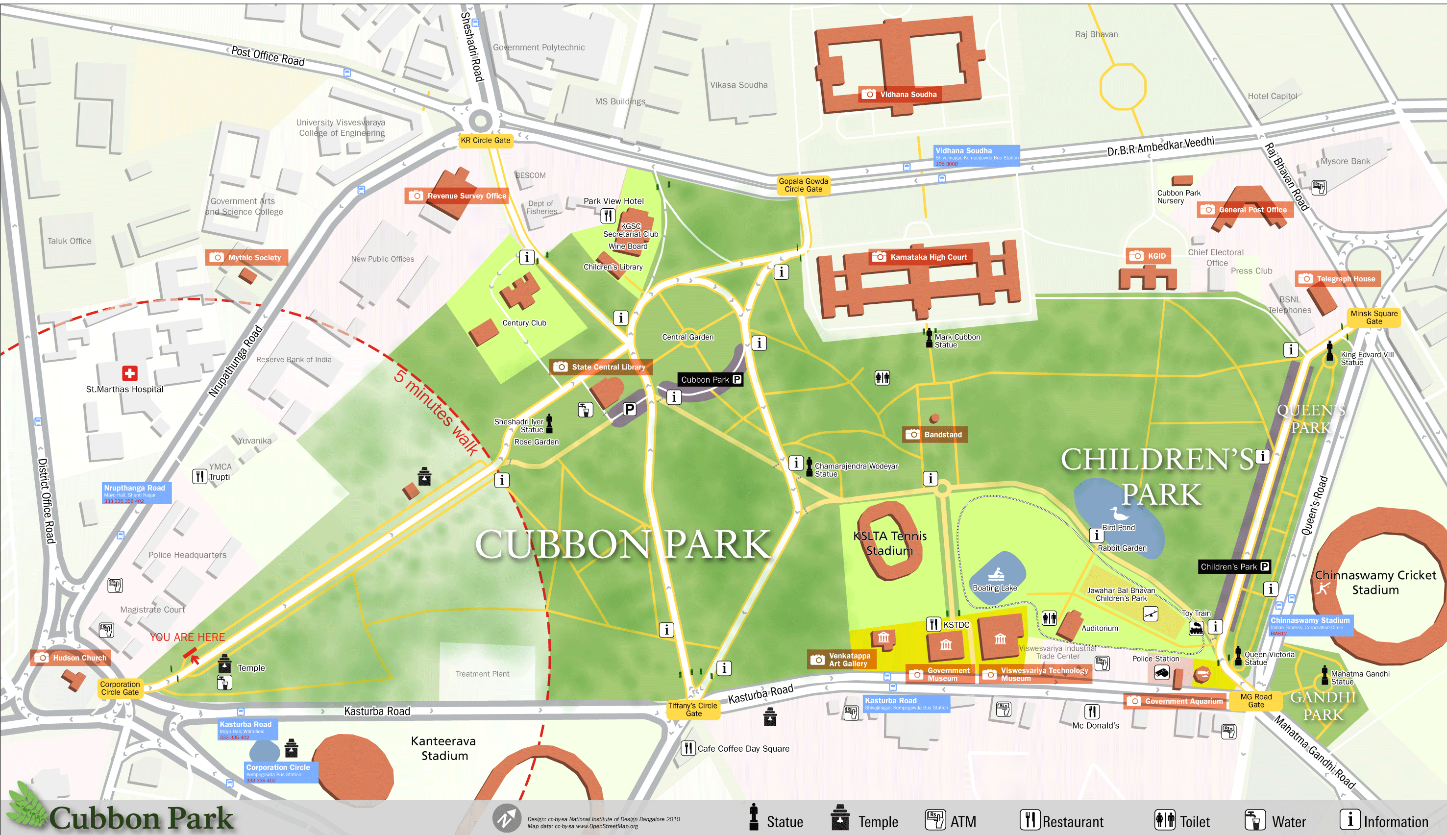 Pedestrian Map for Cubbon park, Bangalore which was created as part of a class project at NID where we developed a system of navigation and wayfinding for visitors to the park. The ground survey was done by students and the data was collected using walking papers. All the data was then added to the openstreetmap database and then exported and processed in Adobe Illustrator for the final output. This map may be incomplete, and may contain errors. Don't rely solely on it for navigation.